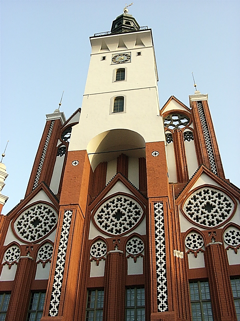 Frankfurt (Oder), Germany. Town hall.